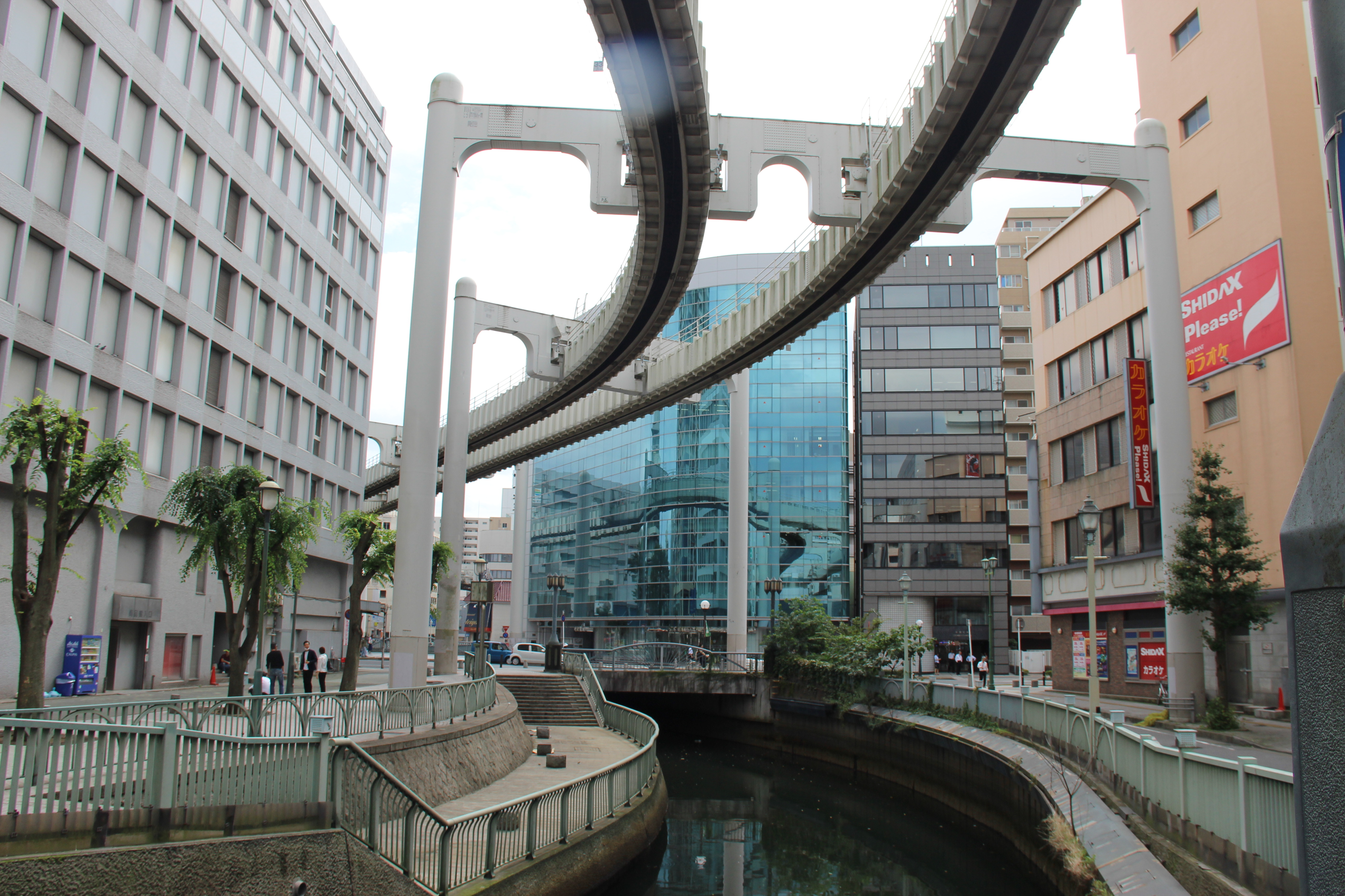 Longest suspended monorail system with 15.2 km track length, Chiba, Japan.